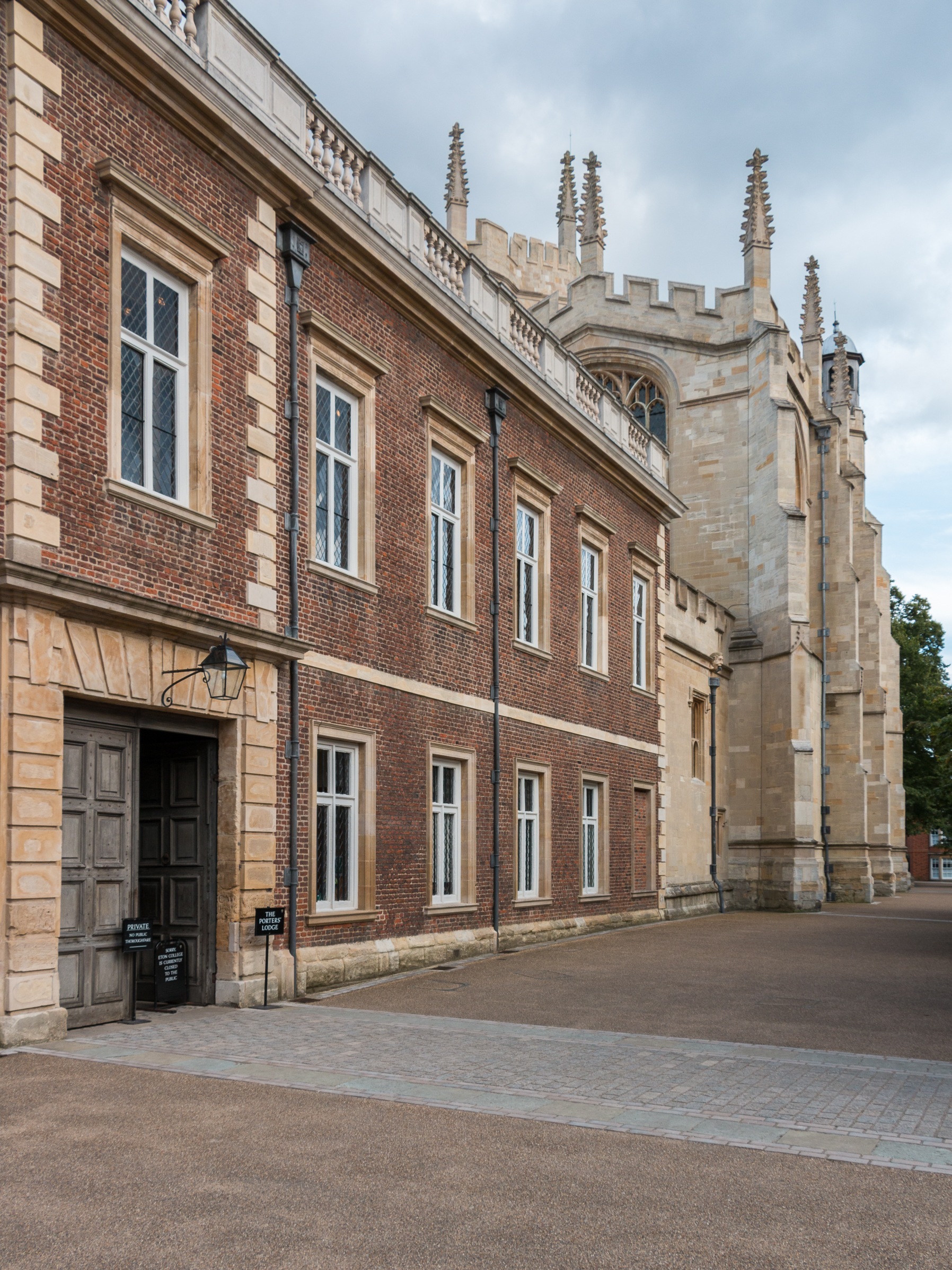 Eton College entrance